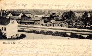 Train station in town of Bünde, District of Herford, North Rhine-Westphalia, Germany.